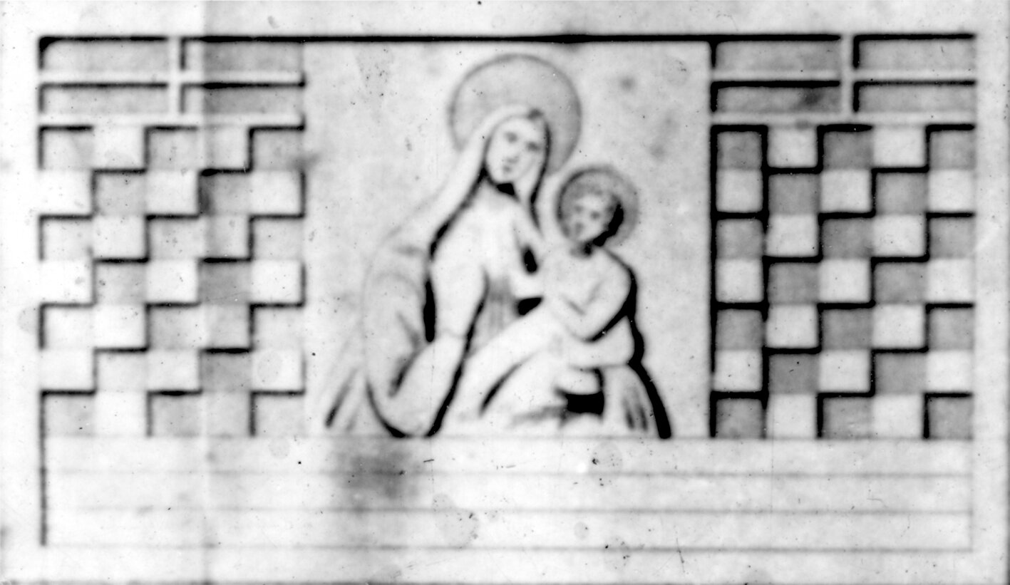 Baseplate with Torcello emblem 1385 in Lapin drawing 1928